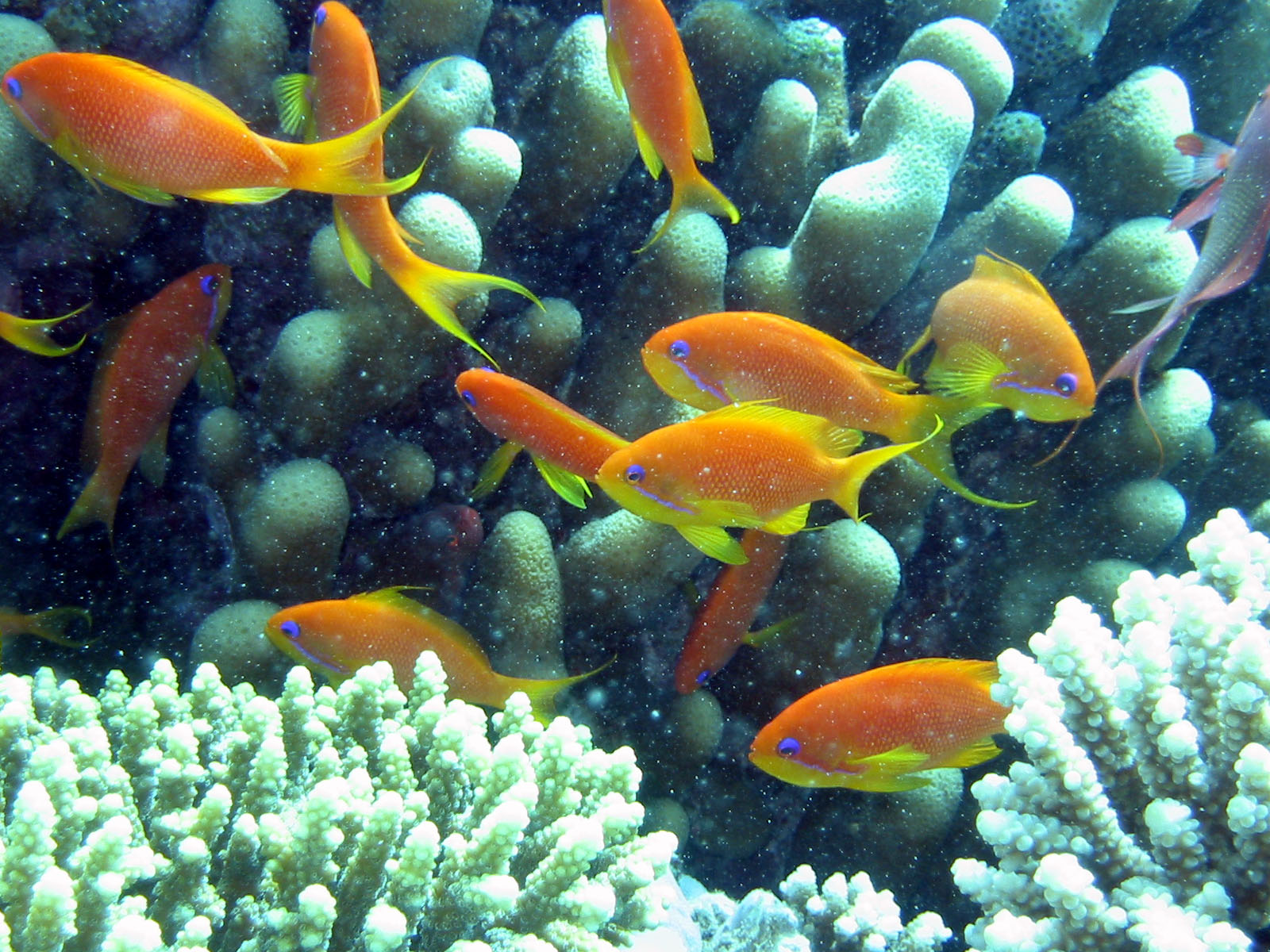 alan slater 2003 dahab red sea